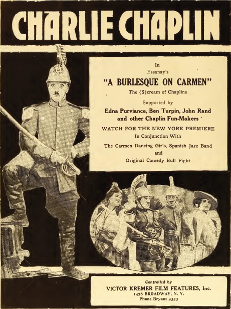 Advertisement for the American comedy film A Burlesque on Carmen (1915) with Charlie Chaplin